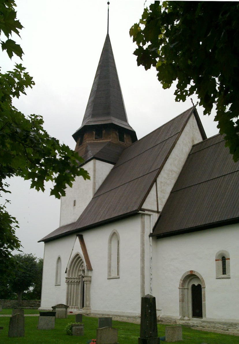 Church of Bäl, Gotland, Sweden